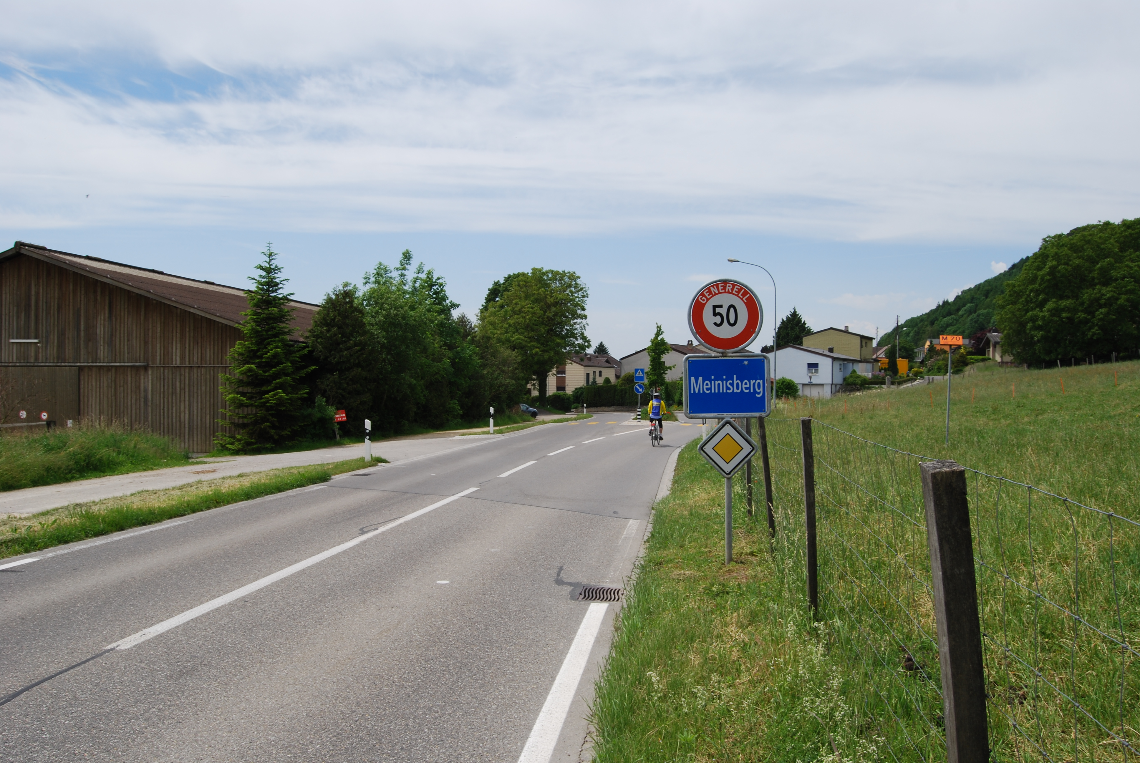 Meinisberg, canton of Bern, SwitzerlandEsperanto: Meinisberg, Kantono Berno, Svislando